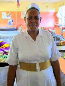 A USAID-funded outreach team, operated by Ugandan Marie Stopes (MSU), in the rural areas of Karamoja, is one of the very few ways women can access family planning in the Karamoja area, in the Northern Region of Uganda. Nurses like Sister Anne (pictured here) from Moroto Hospital know that family planning can be a powerful tool in combatting high maternal mortality rates. For this reason, she was excited to receive training in providing long-term methods of family planning. Her new skill of inserting contraceptive implants has made her well known as their family planning champion. The Karamoja area of Northern Uganda is among the most underserved and impoverished areas in the country. Contraceptive prevalance is extremely low, and ongoing violence and insecurity makes family planning service delivery very difficult. Thousands of women in this region desire to space or delay births, yet they have never heard of family planning and face huge cultural barriers.